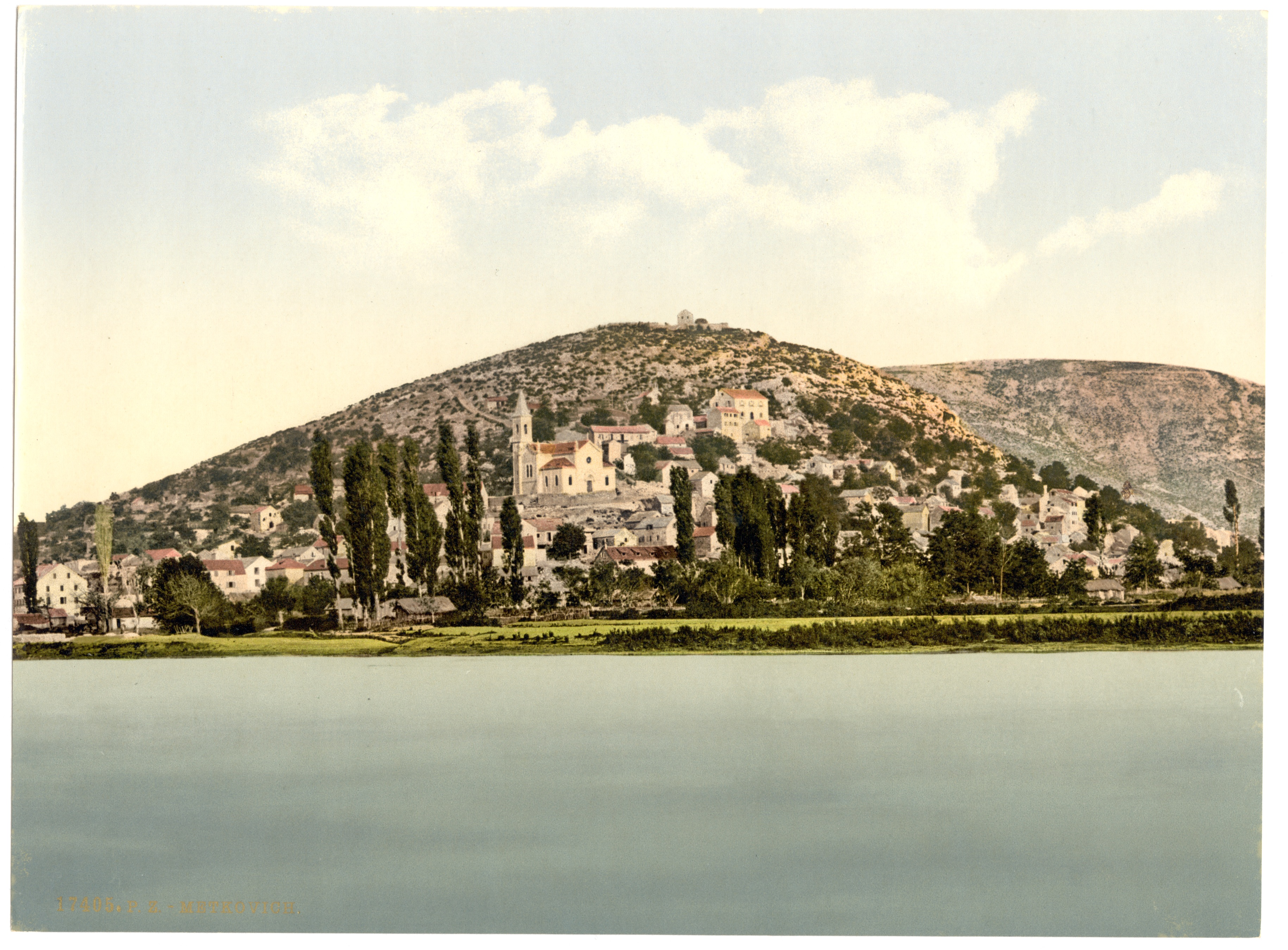 Forms part of: Views of the Austro-Hungarian Empire in the Photochrom print collection.; Title from the Detroit Publishing Co., Catalogue J-foreign section, Detroit, Mich. : Detroit Publishing Company, 1905.; Print no. "17405".